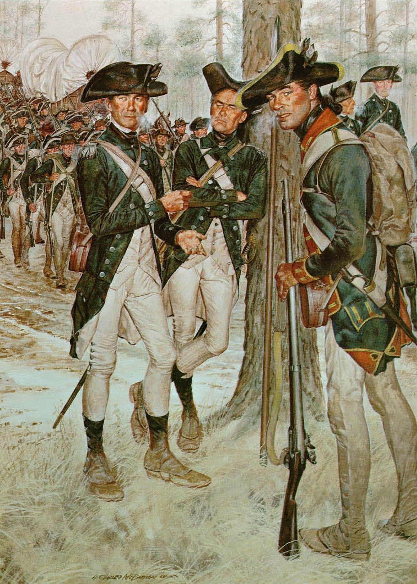 Continental Army soldiers 1782. In the right foreground is an enlisted artilleryman in the blue coat of that corps, faced and lined with red, and trimmed with yellow binding and buttons. His cocked hat is'bound with yellow worsted binding and carries the black and white "Union" cockade. In the left and center foreground are shown a captain and a lieutenant. The captain wears an epaulette on his right shoulder and the lieutenant one on his left shoulder. Both officers are wearing the uniform prescribed for the troops of North Carolina, South Carolina, and Georgia in October 1779, of blue coats "faced with blue," i.e., blue collars, cuffs and lapels, "button holes edged with narrow white lace or tape," lining of white cloth, and white buttons. Their. coats adapted.to field service, reflect the shortages of supplies in that the buttonholes do not have the button holes edged with narrow silver lace which would have been worn by the officers in place of the prescribed "narrow white lace or tape" edging worn by the enlisted men on their buttonholes. In the background is seen a column of southern troops, in the prescribed uniform, with their wagons on the march.